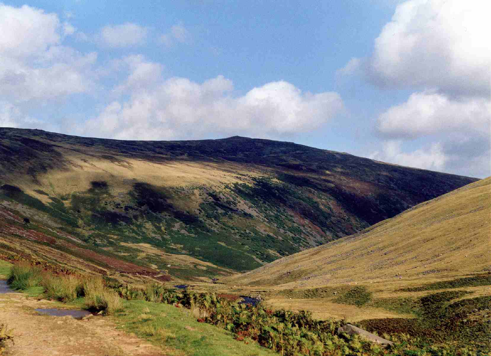 Carrock Fell seen from the Caldew valley near the site of the Carrock mine. Personal photograph taken by Mick Knapton